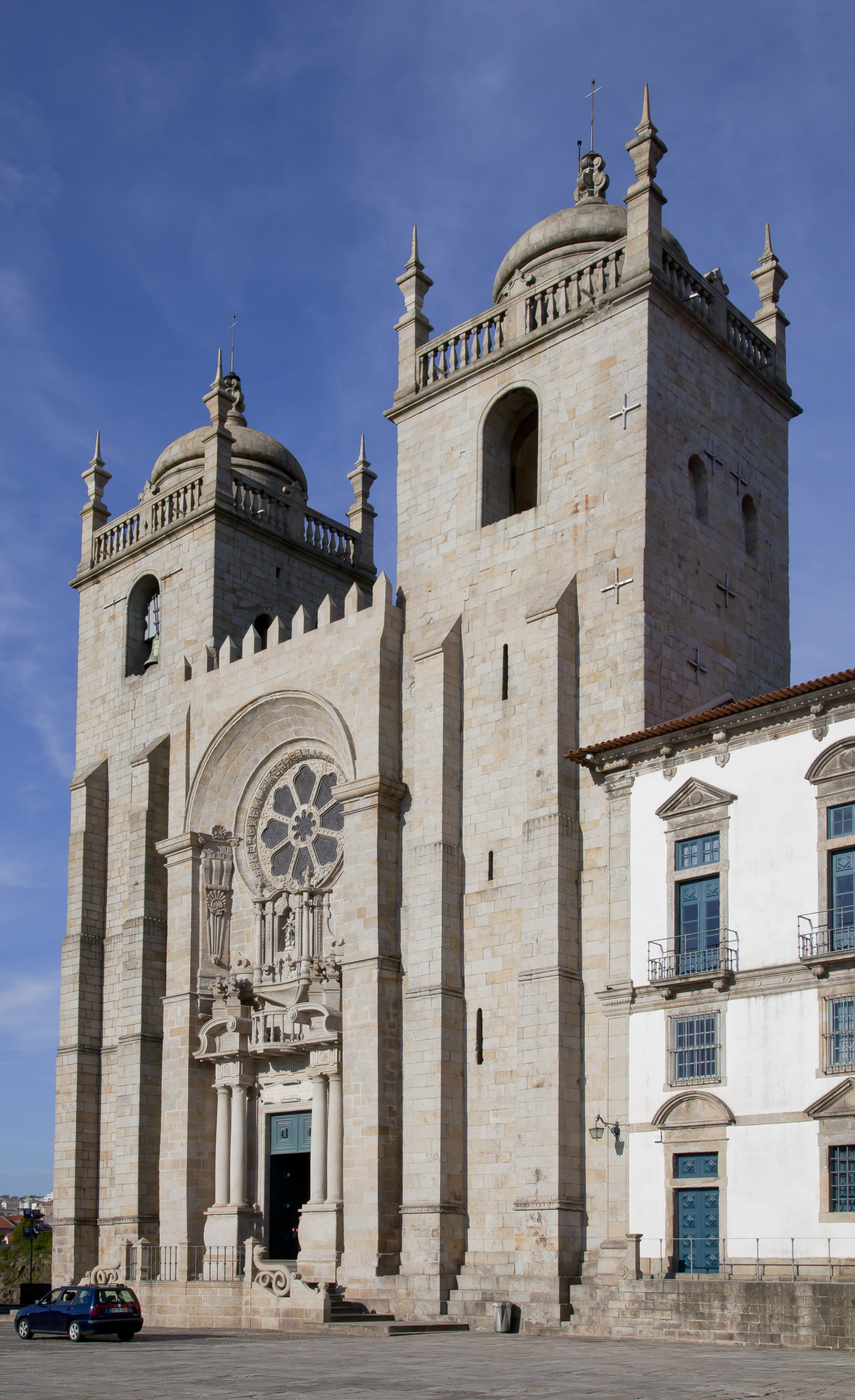 Cathedral of Porto, Portugal